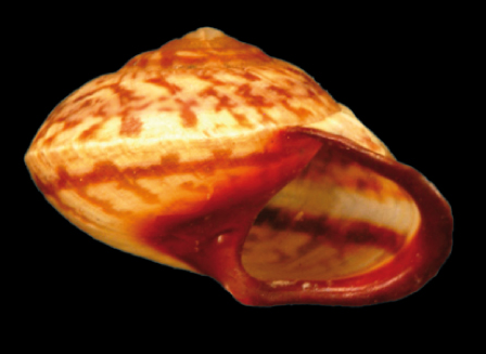 Photo of an apertural view of the shell of Helicina rhodostoma. The height of the shell is 6.90 mm.